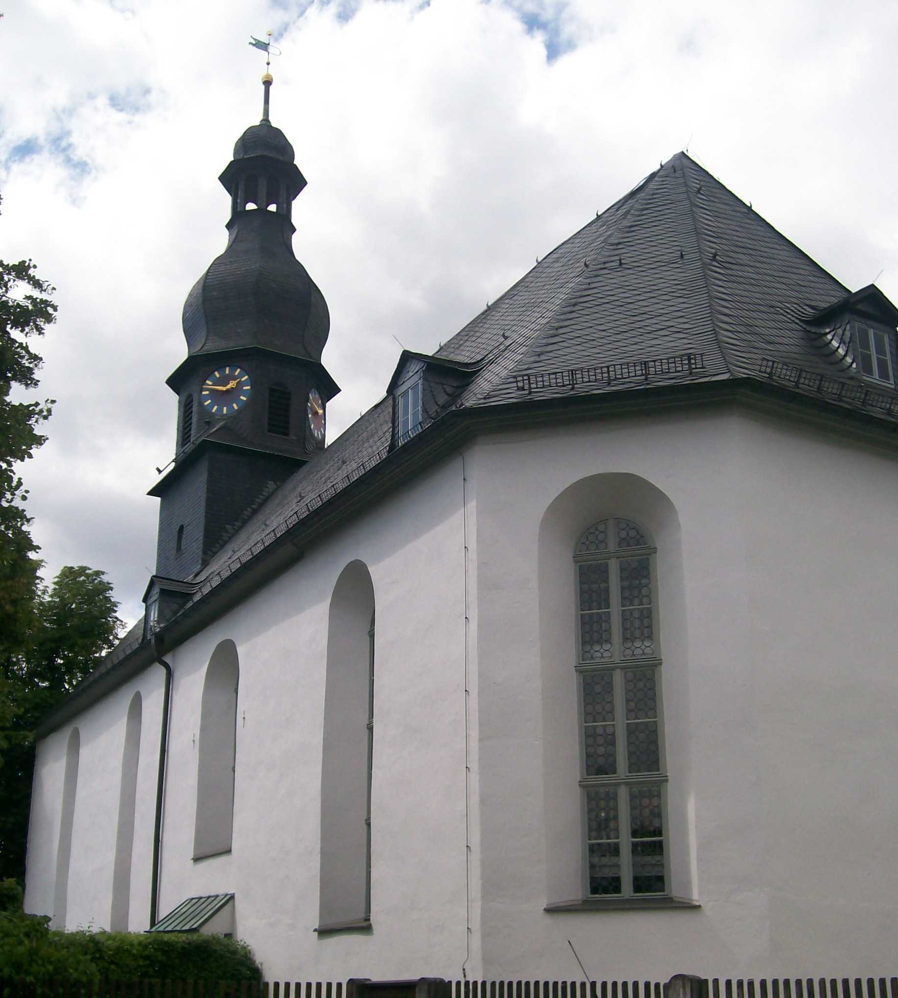 church of Selbitz